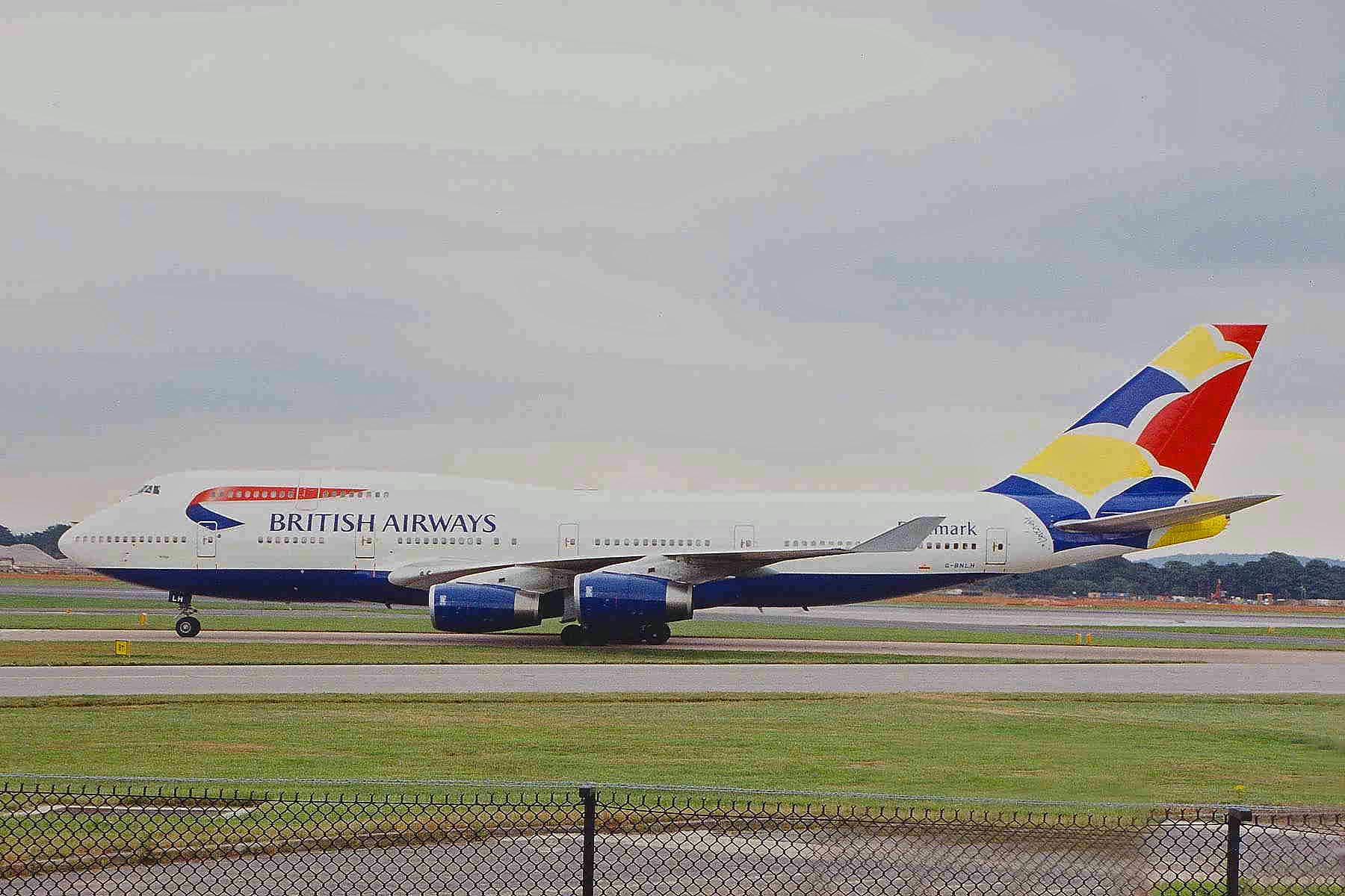 'Wings', Denmark World Tail c/scheme